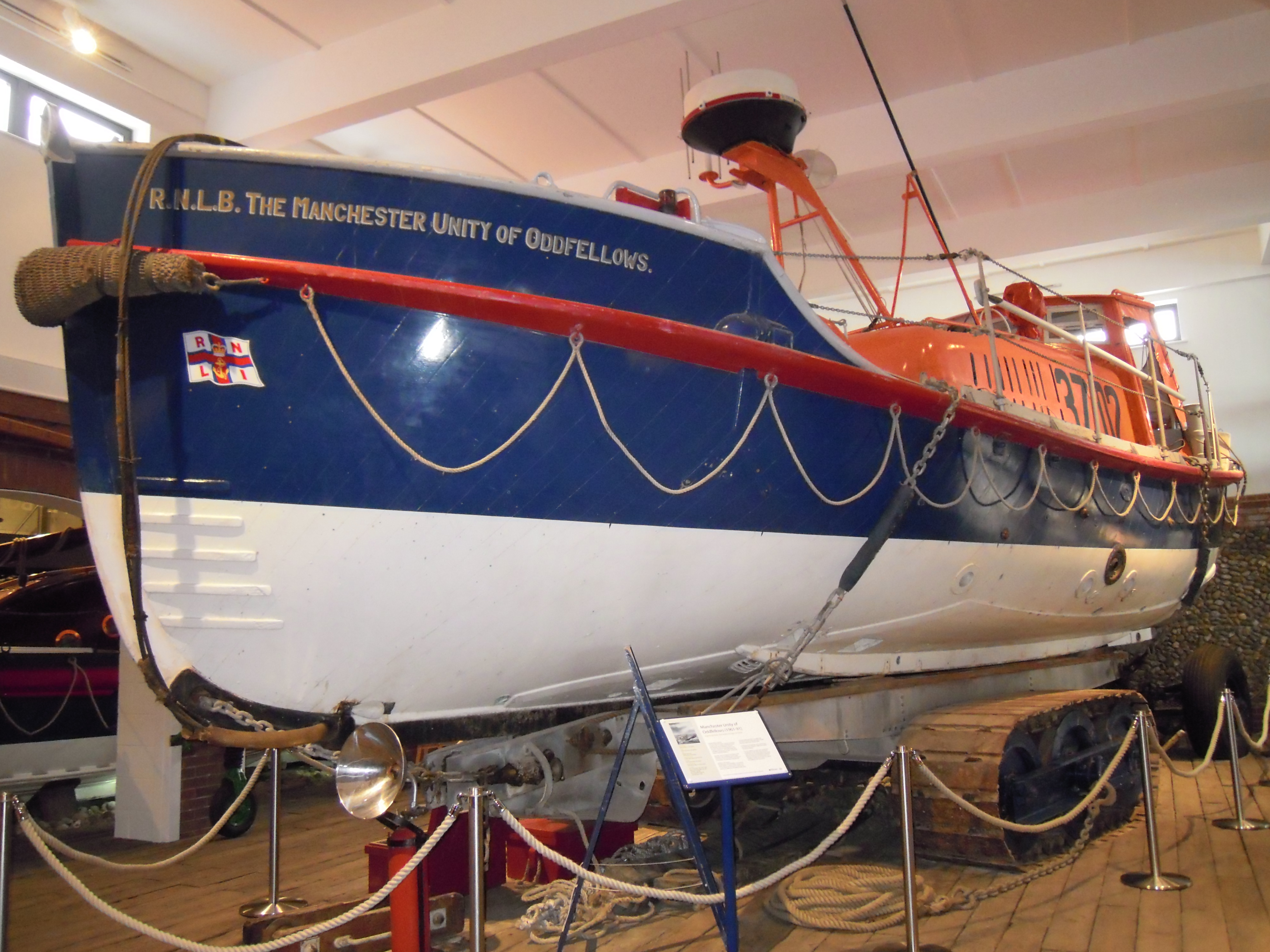 The Sheringham Lifeboat "The Manchester Unity of Oddfellows ON 960" on permanant display at Sheringham Museum, "The Mo". This photograph was taken on the first day the Museum was opened